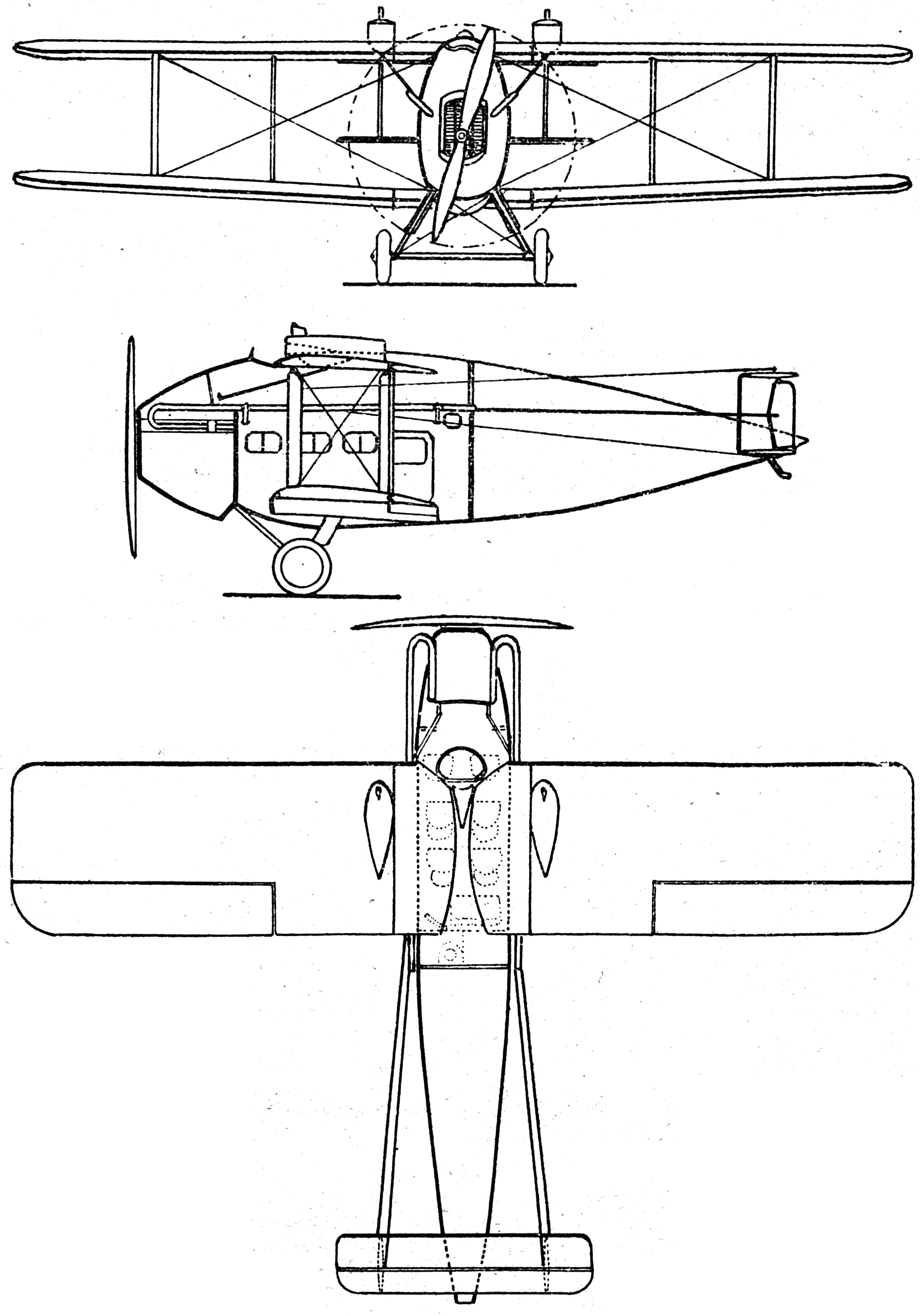 Vickers Vulcan 3-view drawing from Les Ailes July 6,1922